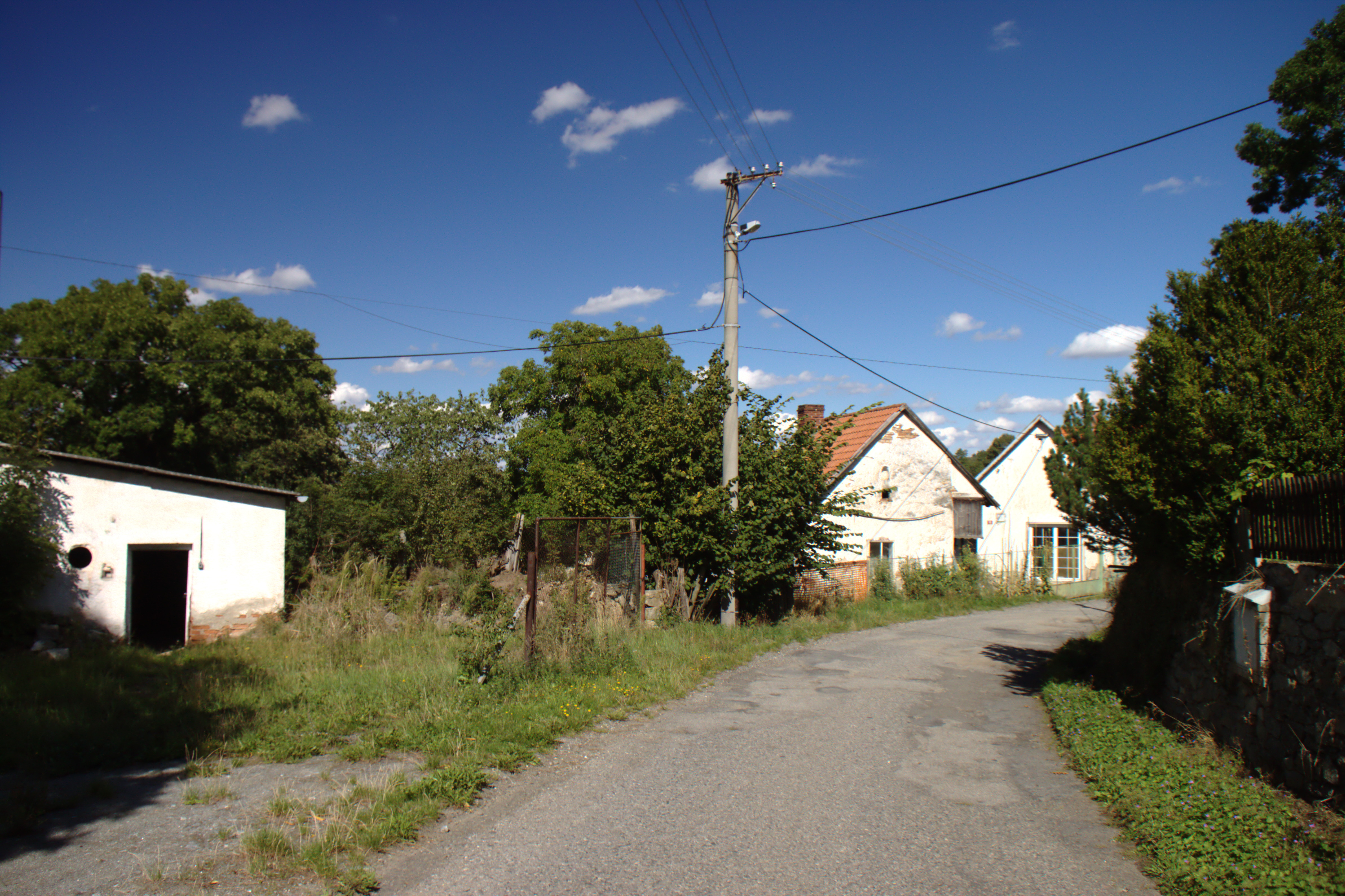 Buildings in Mladoušov near the main crossing, Central Bohemian Region, CZ